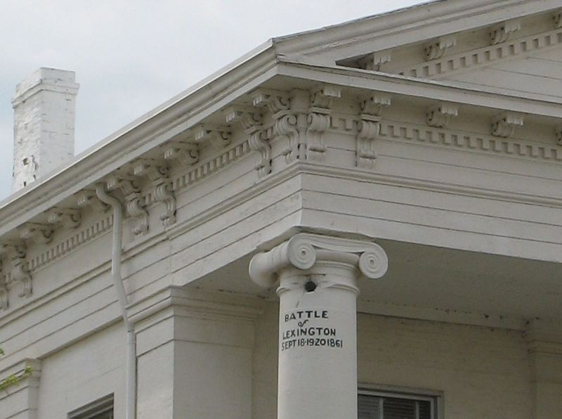 Lafayette County, Missouri Courthouse where a canon ball during the Battle of Lexington I lodged. Photo by poster in March 2007.